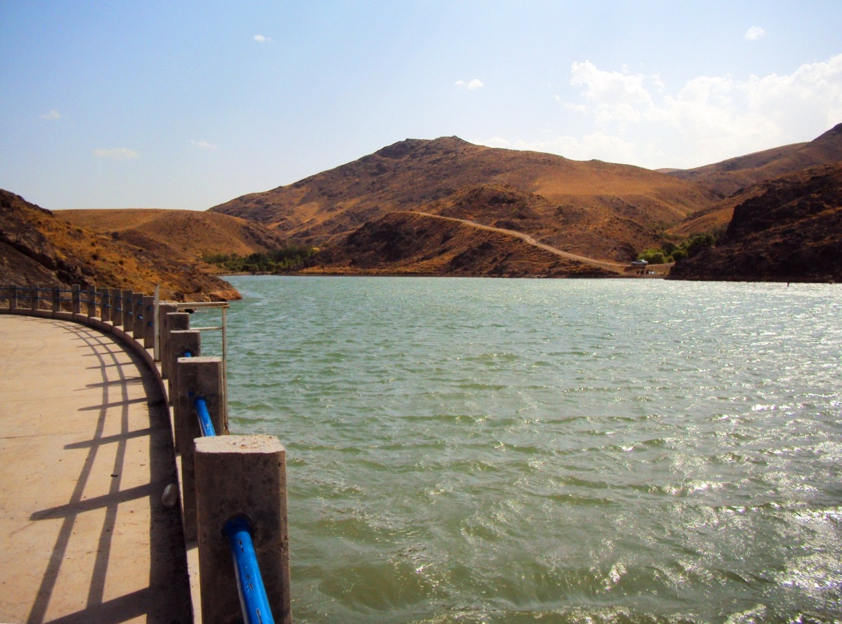 Senjegan Dam, Qom, Iran